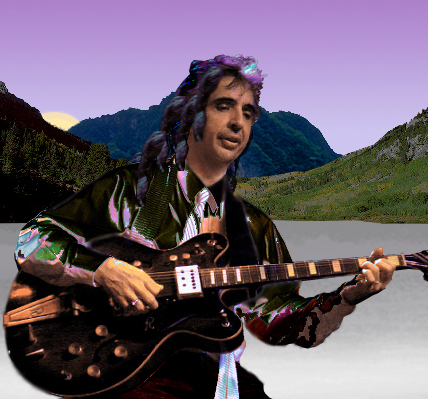 Sérgio Dias (Sérgio Dias Baptista) brother of Cláudio César Dias Baptista - CCDB, who upoload this file. In his hands, Sérgio has the Golden Guitar number II, which was manufactured by Cláudio César Dias Baptista for him, with the name "Guitarra de Ouro Regvlvs Raphael II".